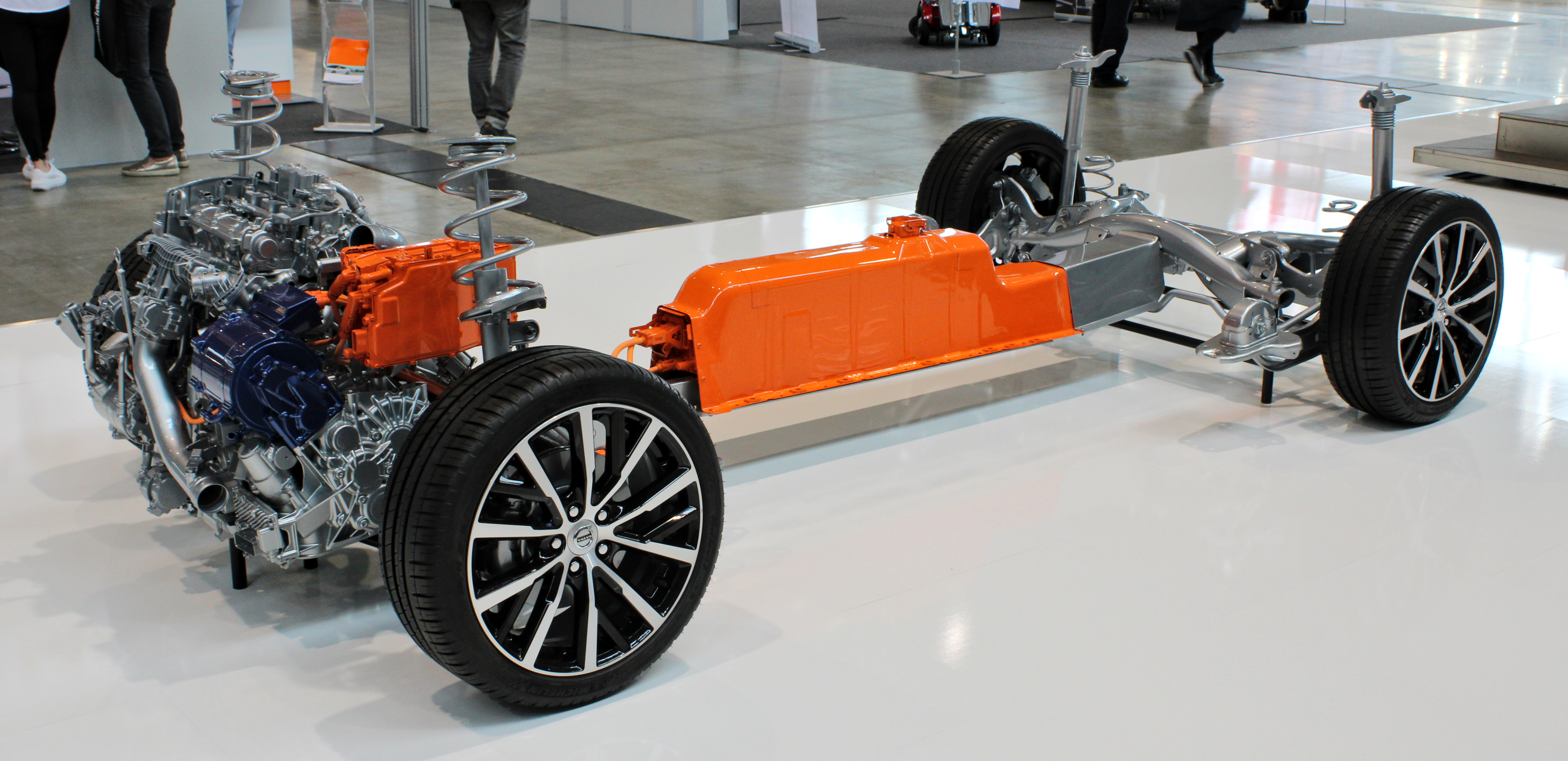 Volvo CMA Platform at i-Mobility 2019